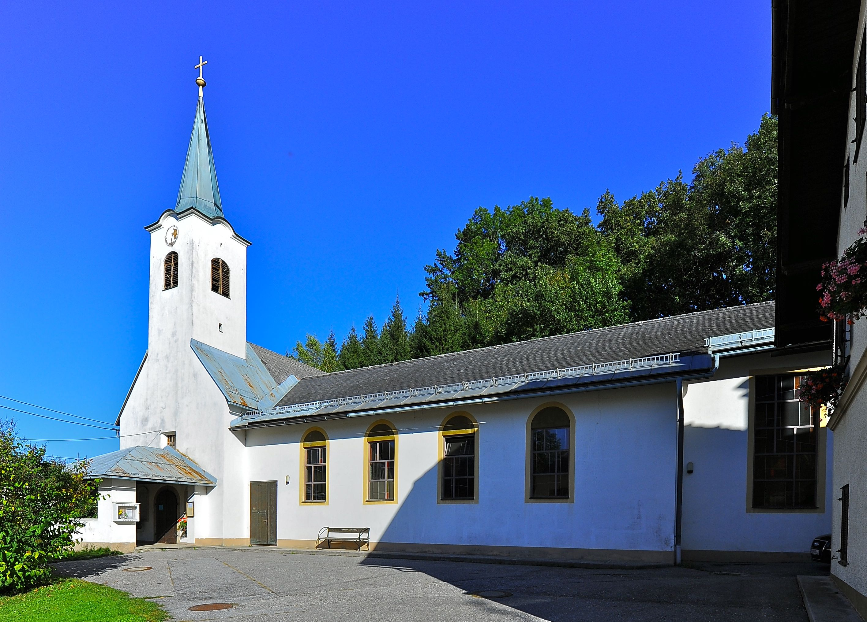 Subsidiary church Saint Lawrence in Gödersdorf, market town Finkenstein am Faaker See, district Villach Land, Carinthia, Austria, EU